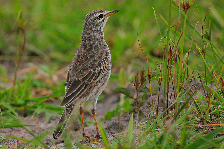 A very range-restricted pipit of calcareous coastal grassland confined to the North Kenyan coast and extending into the adjacent bandit country of south coastal Somalia. This image was taken at Gongoni north of Malindi in north coastal Kenya.